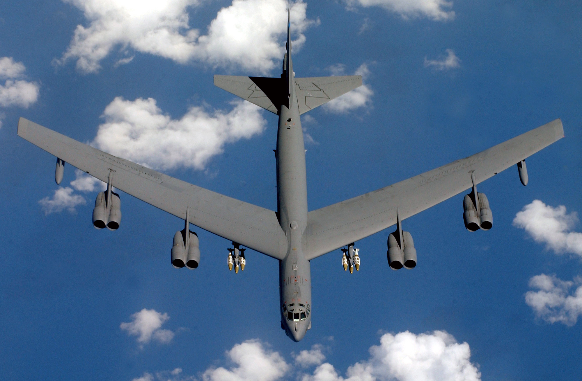 Central Command Area of Responsibility (Apr. 15, 2003) – A B-52 Stratofortress assigned to the 40th Expeditionary Bomb Squadron, loaded with 12 Joint Direct Attack Munitions (JDAM) heads toward Iraq with its new mission directive. The bomber's mission is to provide close air support for coalition troops stabilizing the country of Iraq. Operation Iraqi Freedom is the multi-national coalition effort to liberate the Iraqi people, eliminate Iraqi's weapons of mass destruction and end the regime of Saddam Hussein. U.S. Air Force photo by Tech. Sgt. Richard Freeland. (RELEASED)